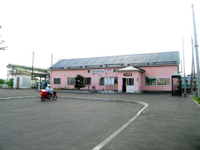 Pippu railway station on Soya mainline, Pippu, Hokkaido, Japan